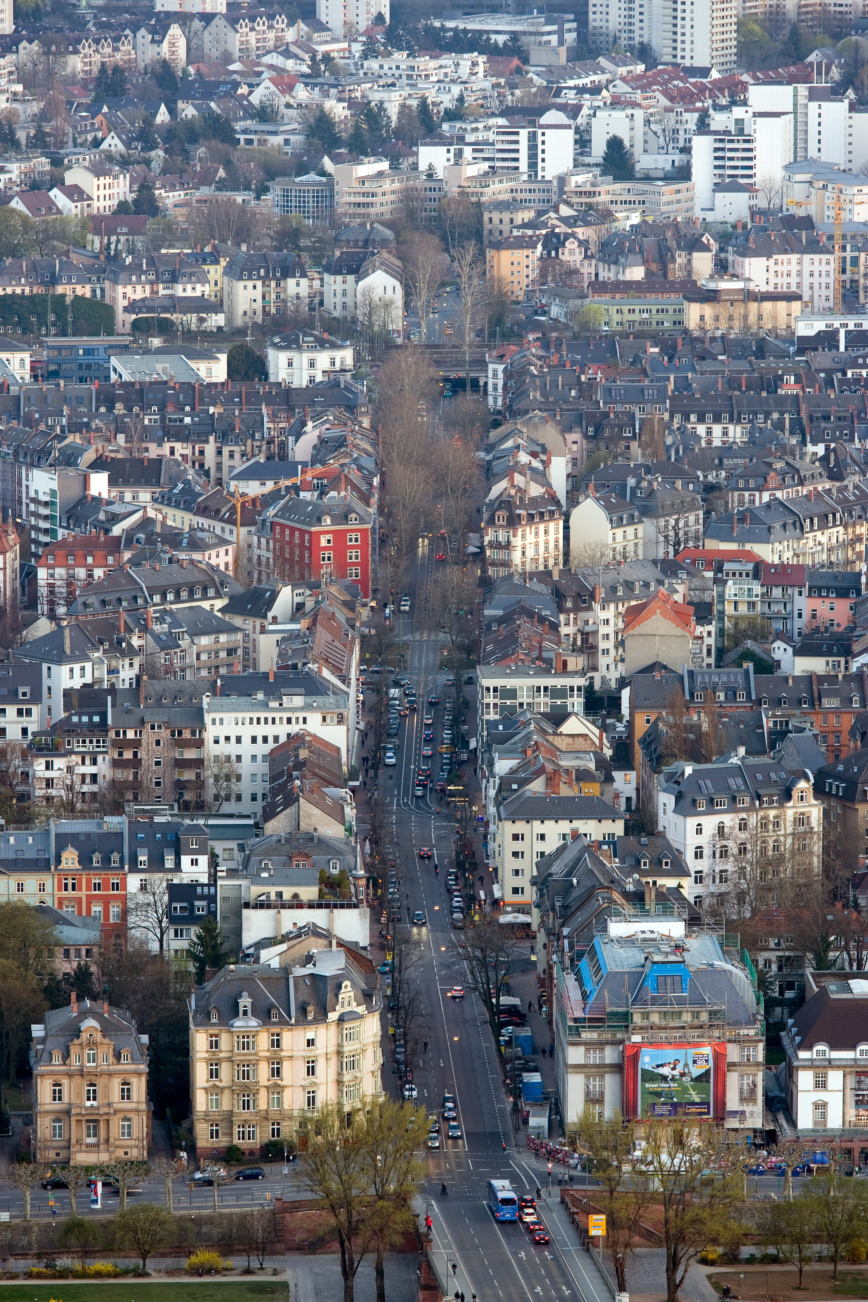 Frankfurt on the Main: Schweizer Straße (Switzerland Street) as seen from the Maintower